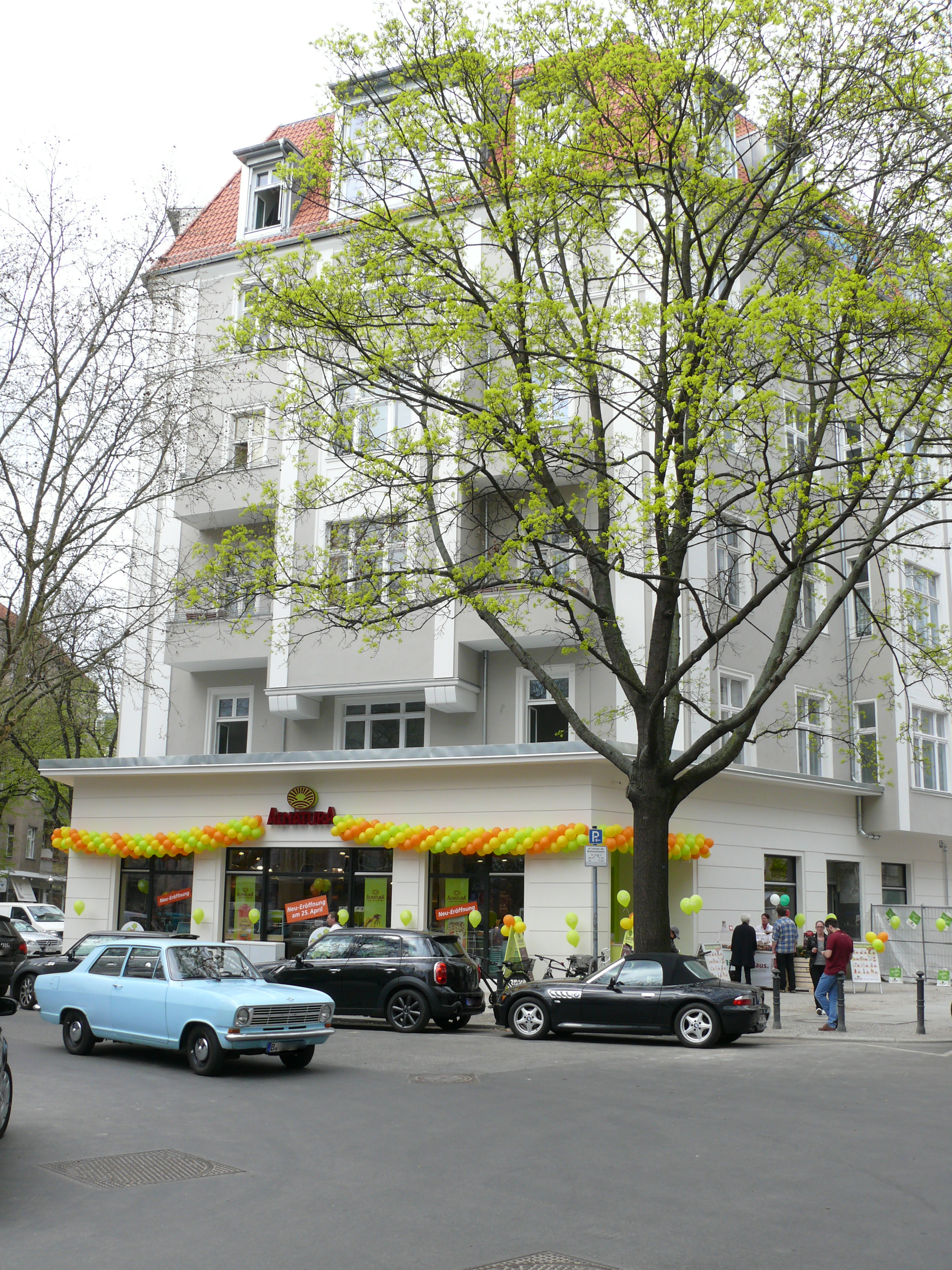 Berlin-Charlottenburg Giesebrechtstraße Alnatura